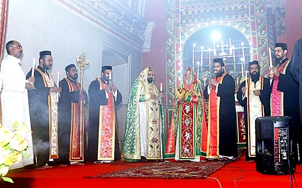 West Syrian Liturgy-Liturgy of St James